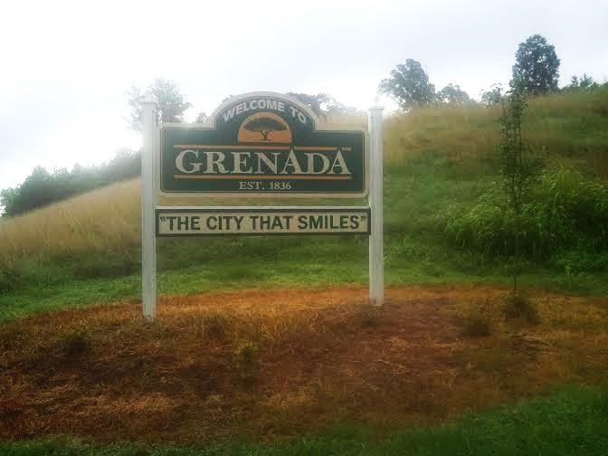 Sign located on Mississippi Highway 8